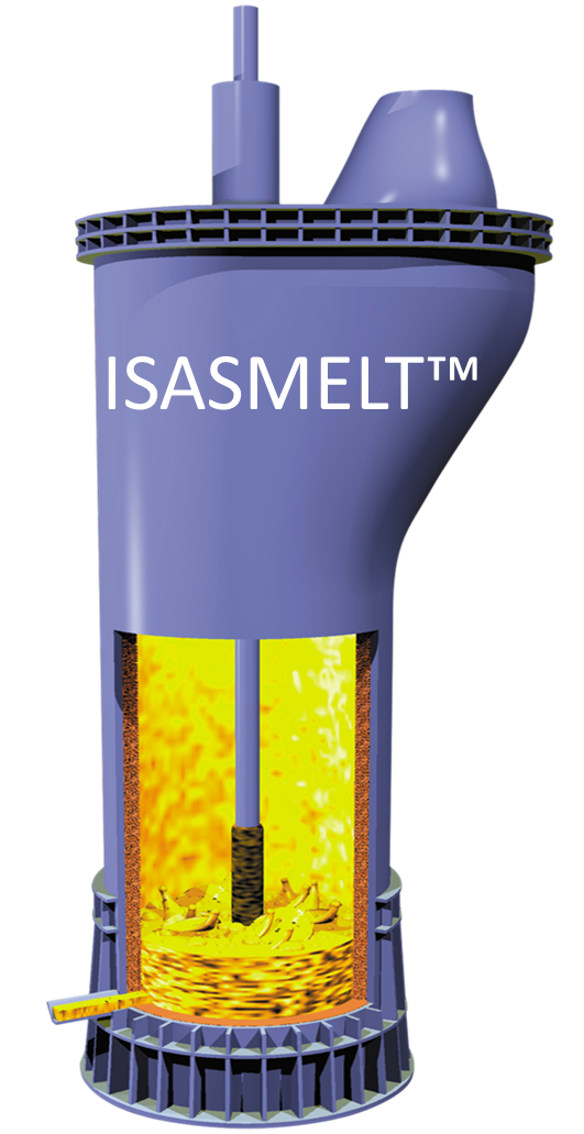 A drawing of an Isasmelt furnace showing the inside, including bath and slag-coated lance.